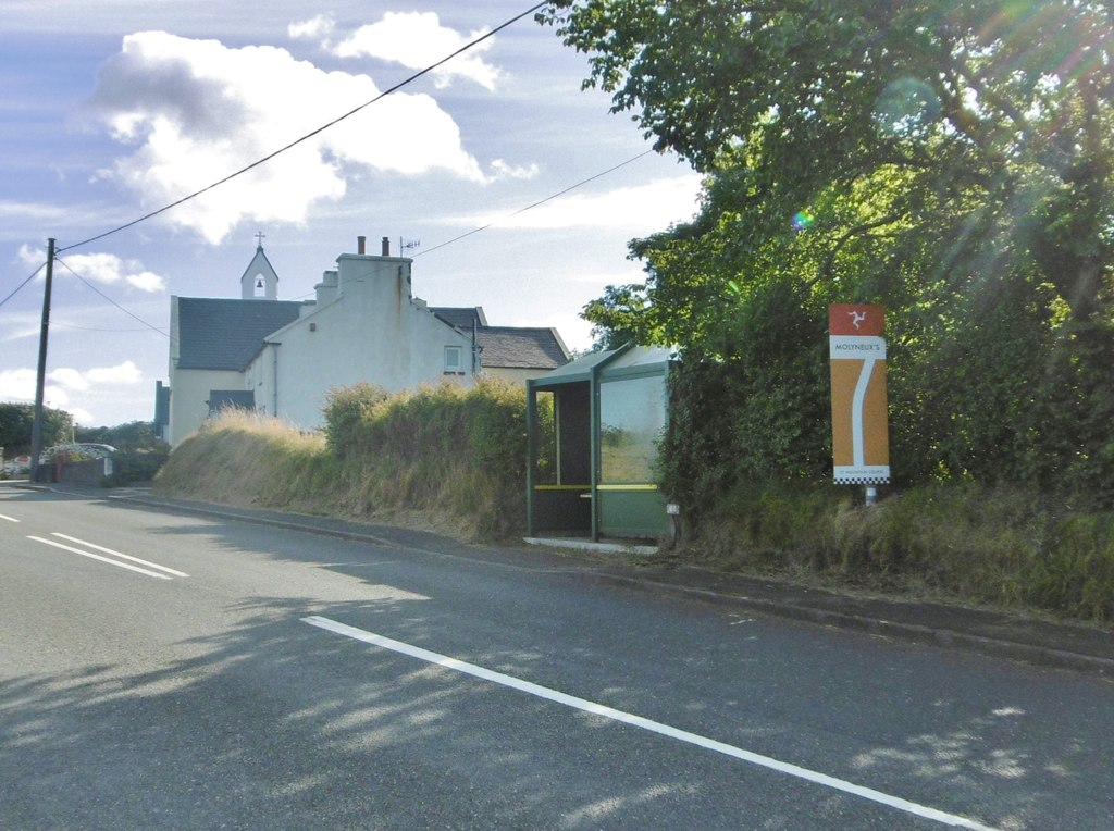 Cronk-y-voddy, bus shelter for SC3085 Served by routes 5C & 6C Douglas to Ramsey. Next to the shelter, a TT marker (Molyneux's), and in the background an old church, now residential.